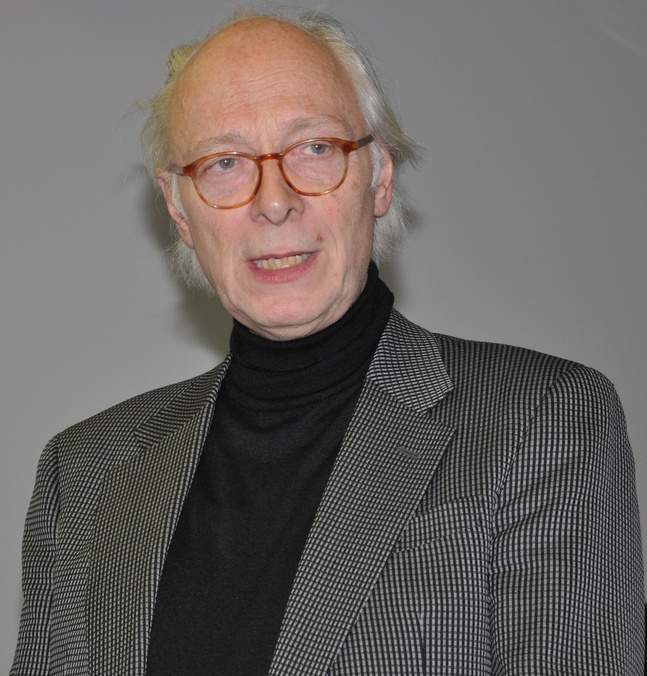 Finnish architect Benito Casagrande speaking in Turku's main library.